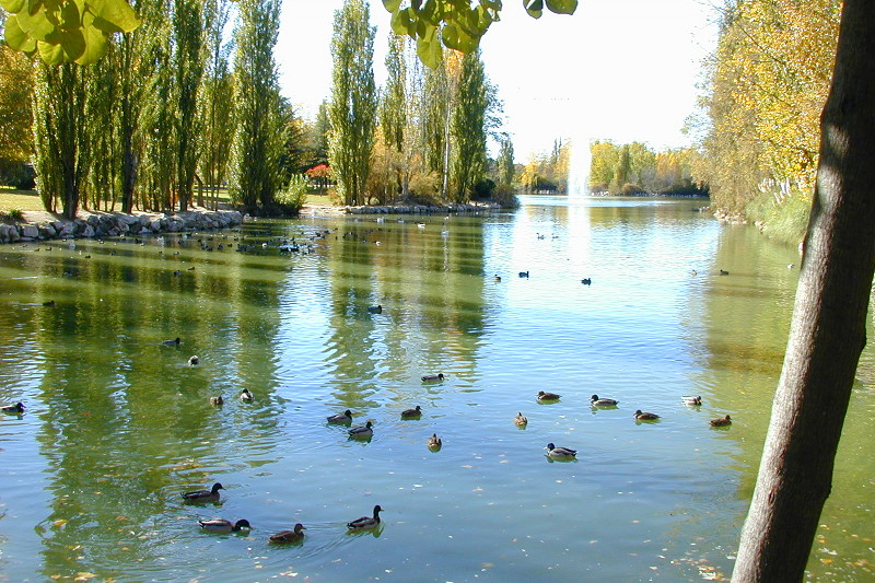 Natural Park "El Soto" - View of the lake from the East header.